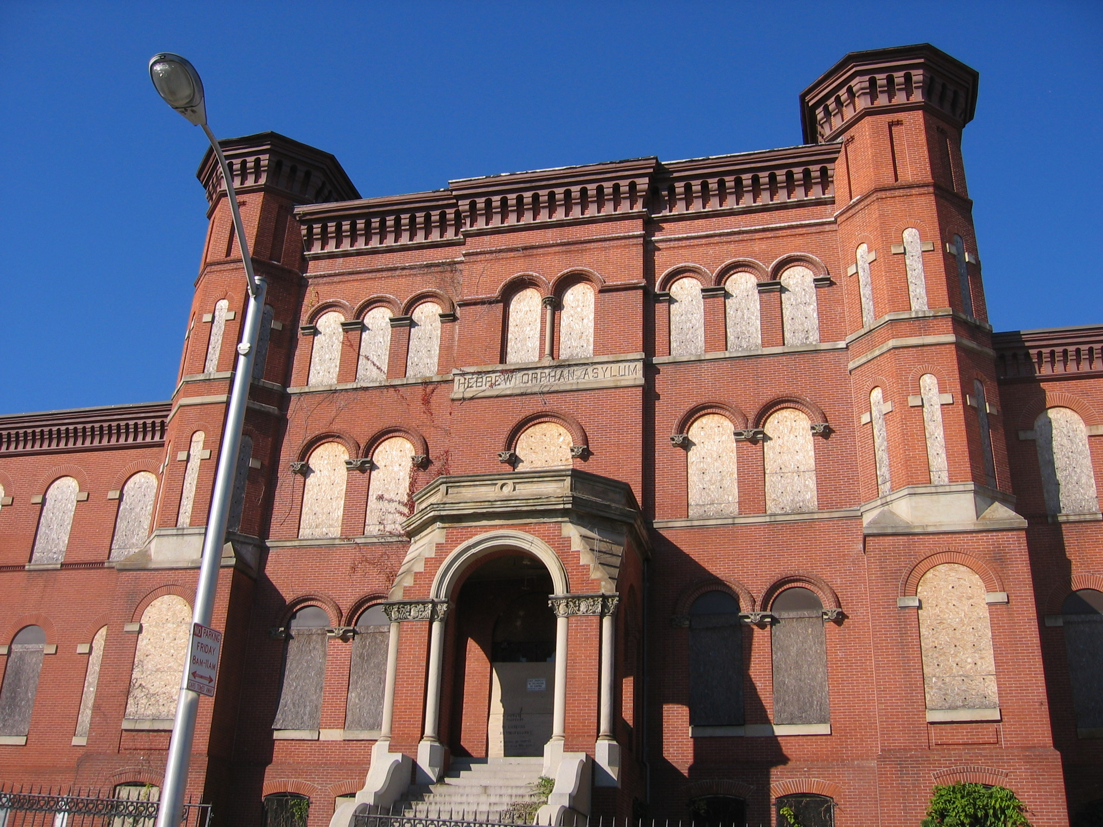 The Hebrew Orphan Asylum is currently owned by Coppin State University.